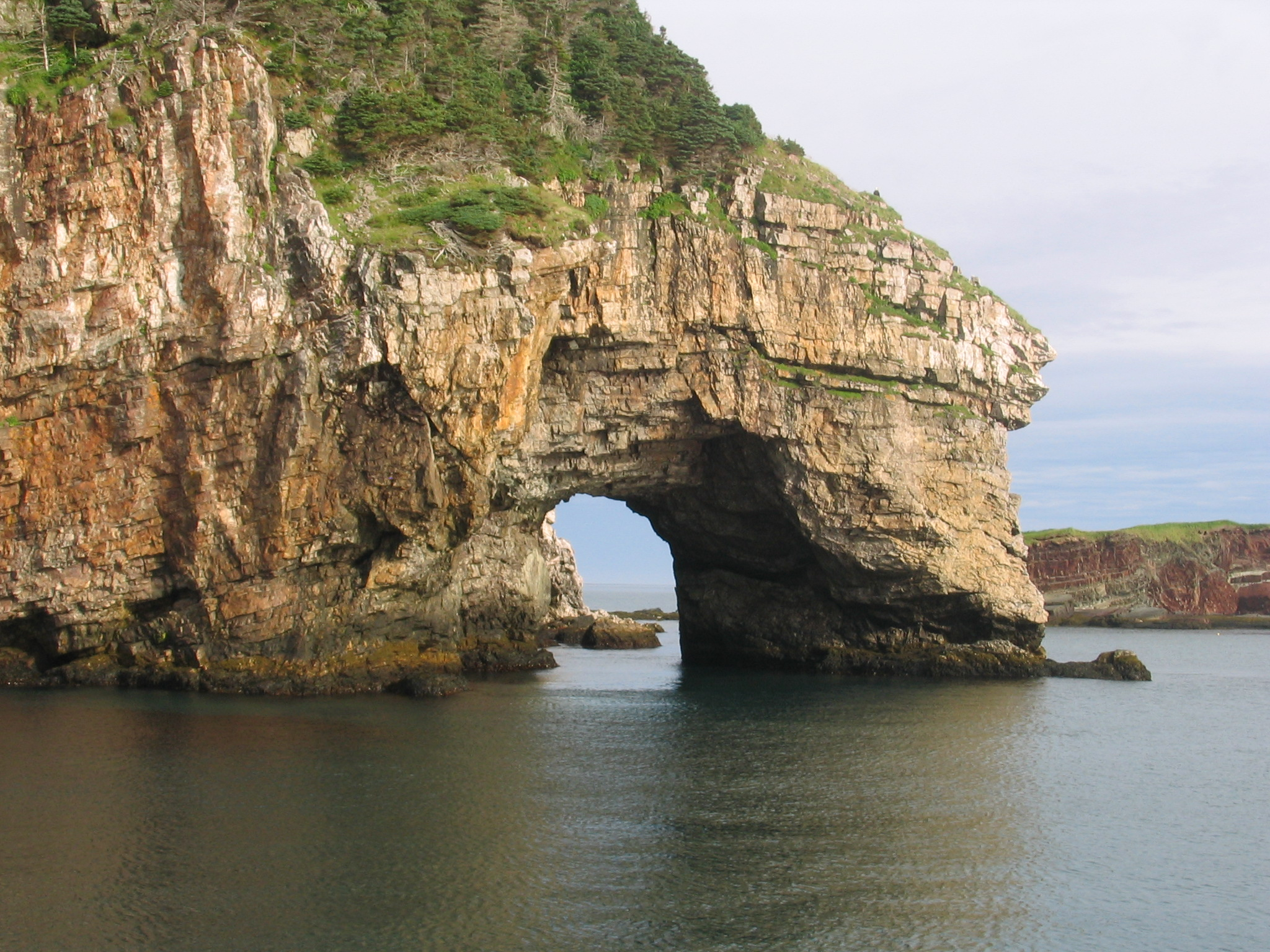 rugged shore of Miquelon, Saint-Pierre and Miquelon.